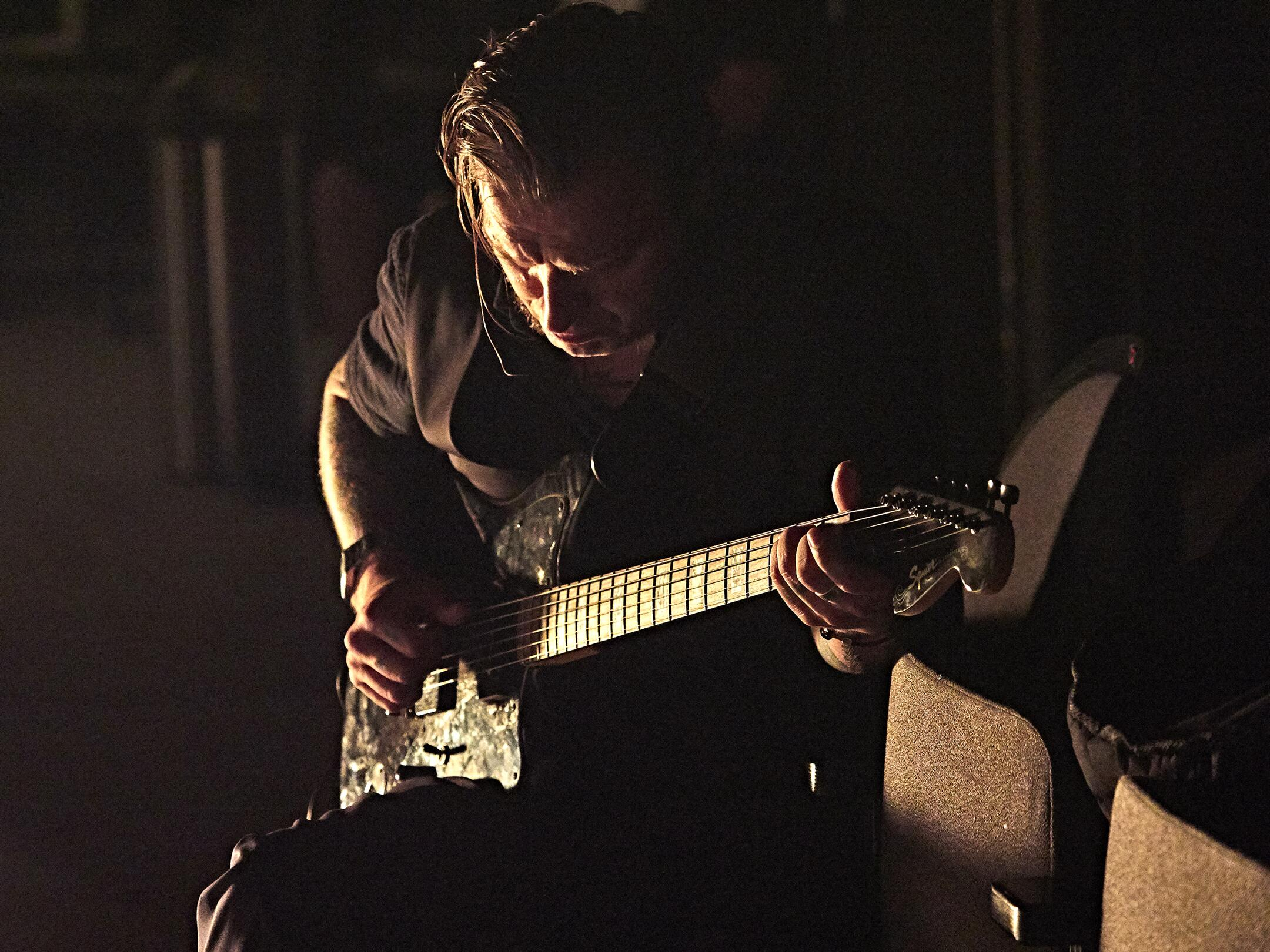 Karsten Riedel performing in "Die göttliche Komödie" at Düsseldorfer Schauspielhaus, Photo by Thomas Rabsch